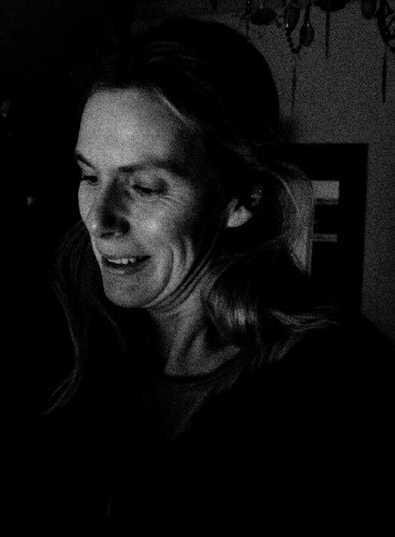 Profile picture for German artist Sibylle Mania